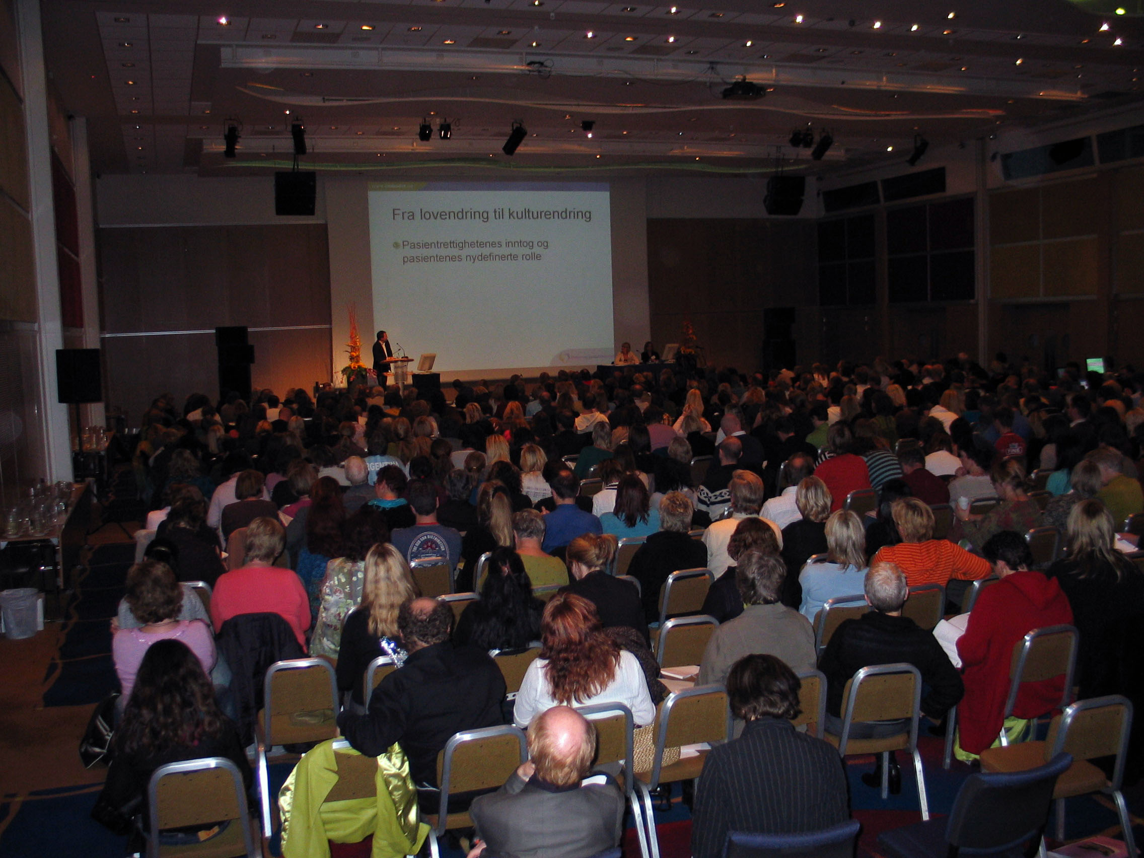 Photos of attendes at Annual LAR-conference in Oslo (LAR = Legemiddelassistert rehabilitering = Medicament assisted rehabilitation)